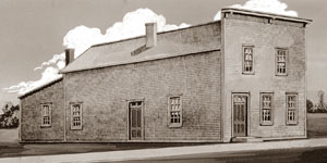 The first H. Mueller, Gun Shop on 100 block of West Main Decatur, Illinois, c. 1859